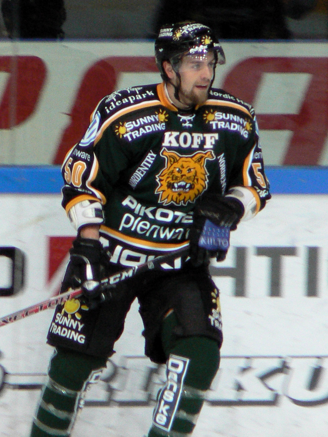 American ice hockey defenseman Matt Nickerson playing for Ilves Tampere in February 2008.